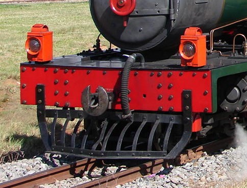 Bell-and-hook coupler with Johnston coupler adapter link on restored Beira Railway no. BR7 4-4-0, SAR Class NG6